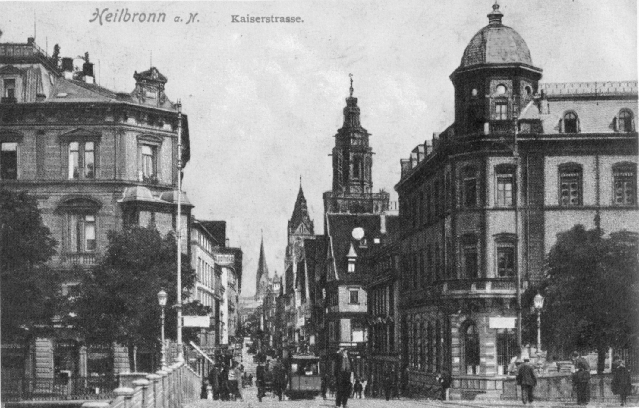 View of Heilbronn’s Kaiserstraße (Emperor Street) 1906